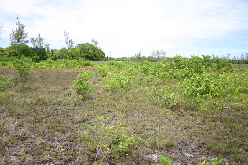 Scrubby Shrubland, Diego Garcia, British Indian Ocean Territory